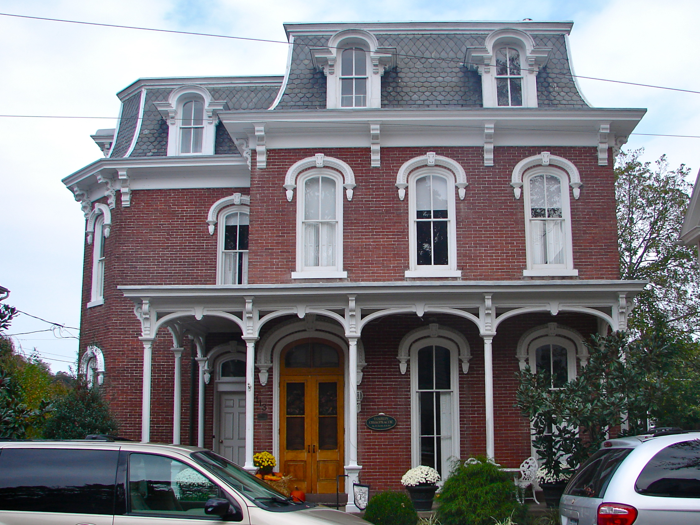 House at 113 West Market Street, Danville, Pennsylvania. In the Danville West Market Street Historic District on the NRHP since May 29, 1985. The HD is bounded by Courthouse Alley, Front Street, Haney's Alley and Mahoning Street, Danville. Interestingly, this HD is "encorporated into" the later Danville Historic District. This house is now operated as a chiropractic clinic.